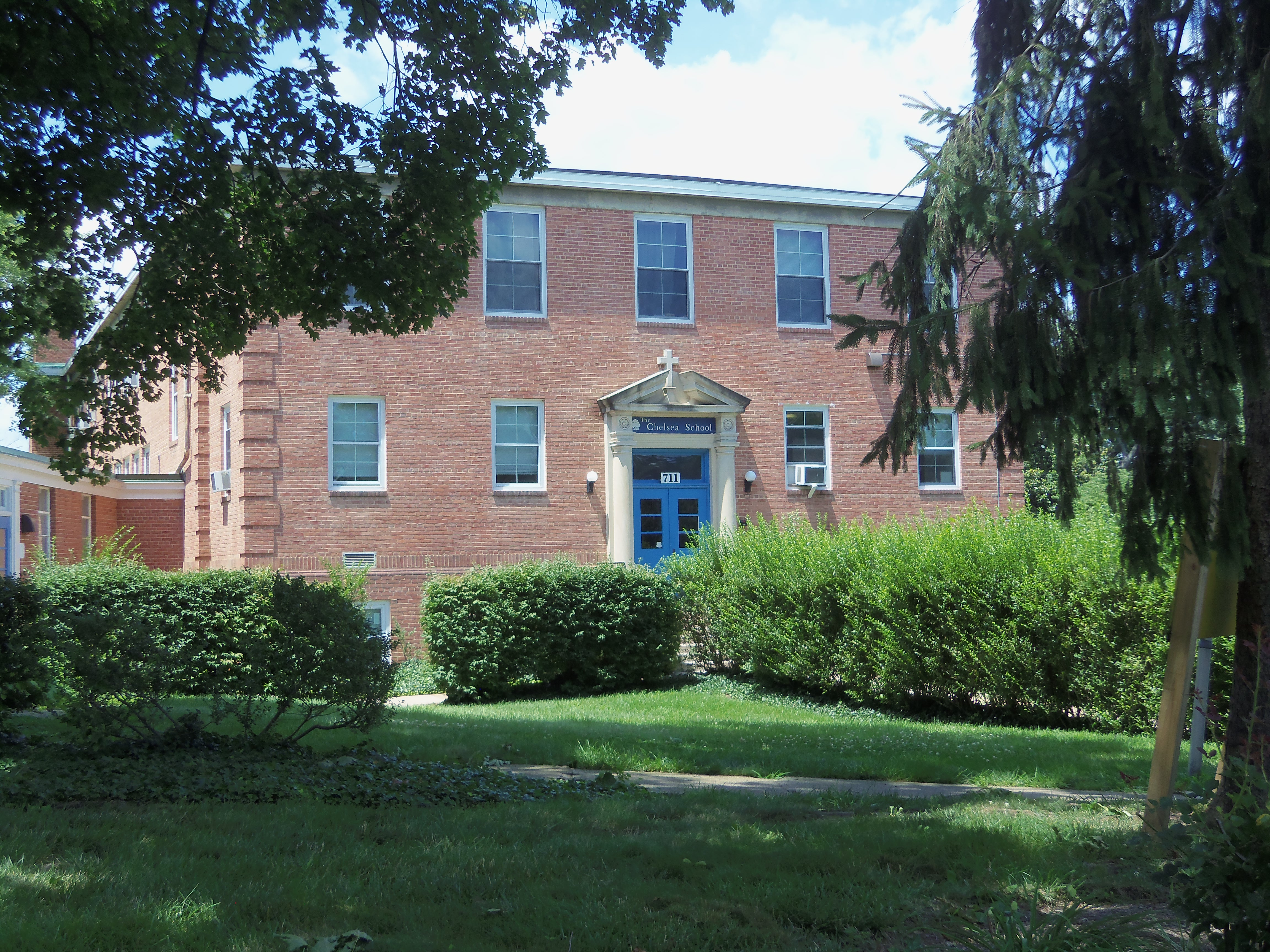 The Academy of the Holy Names was a Catholic girls high school located in Silver Spring, Maryland. It was operated by the sisters from 1936-1988. After which it became the Chelsea School from 1988 - 2012. The property is being redeveloped for townhouses as of 2013.